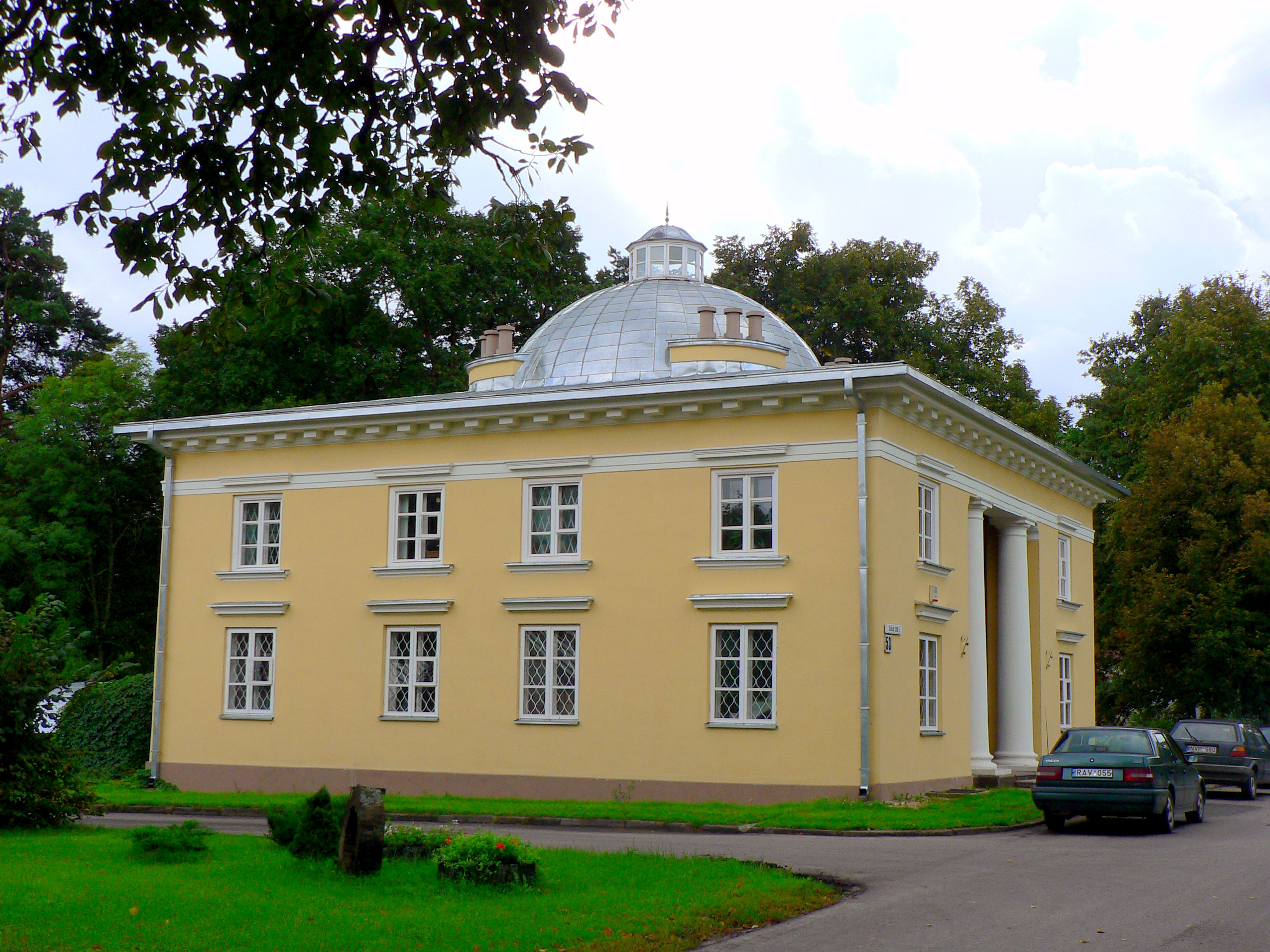 Verkiai Park management building, Vilnius, Lithuania